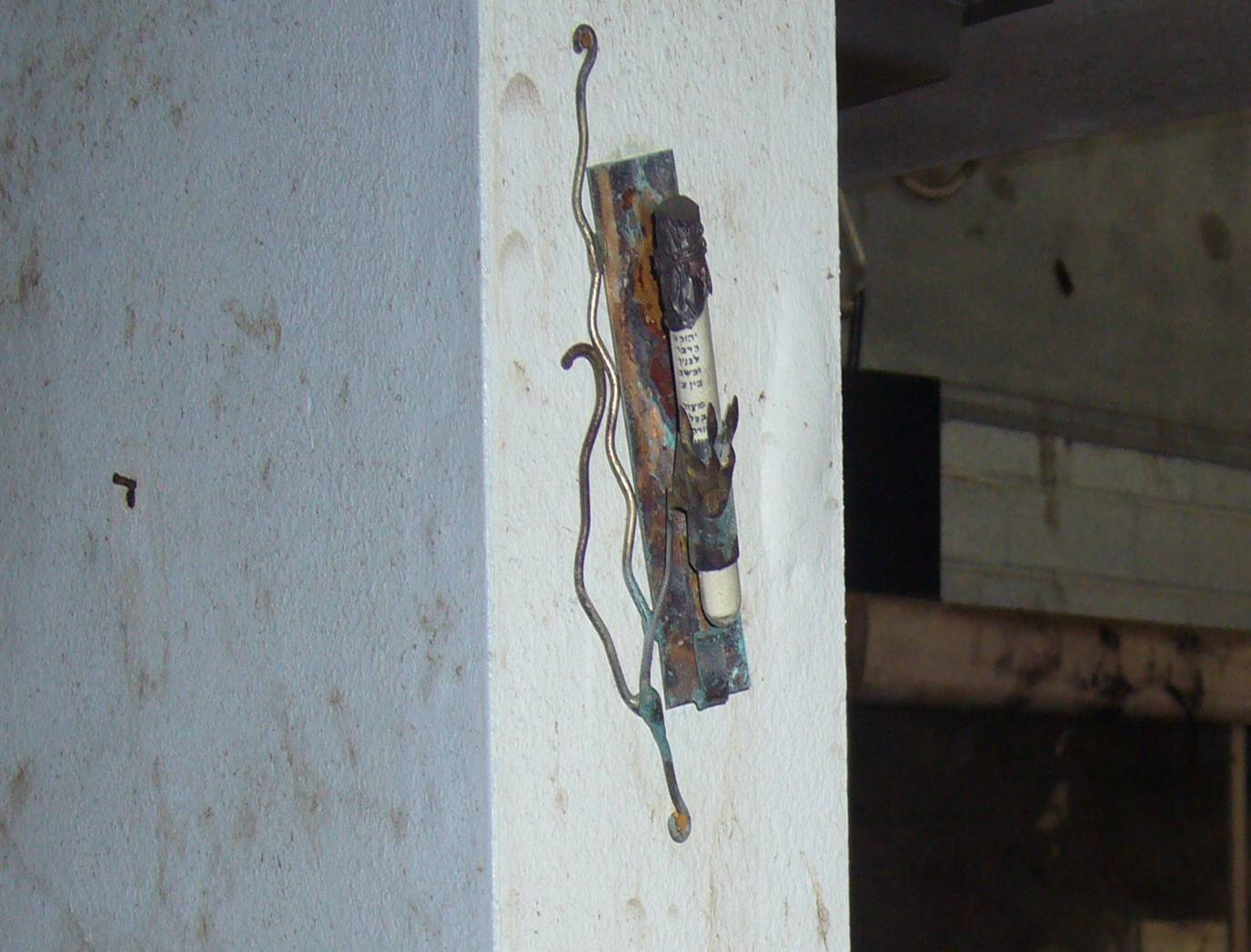 This mezuzah was hanging by a thread in the doorway of a Jewish home in the Lakeview section of New Orleans– on a home that was left for months after the Hurricane Katrina levee failure disaster, ungutted, as the owners tried to decide whether to rebuild.